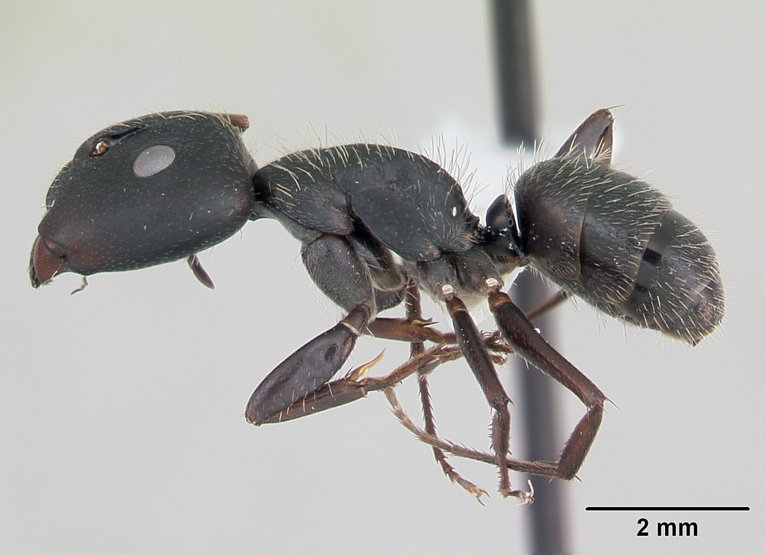 Profile view of ant Camponotus westermanni specimen casent0173460.